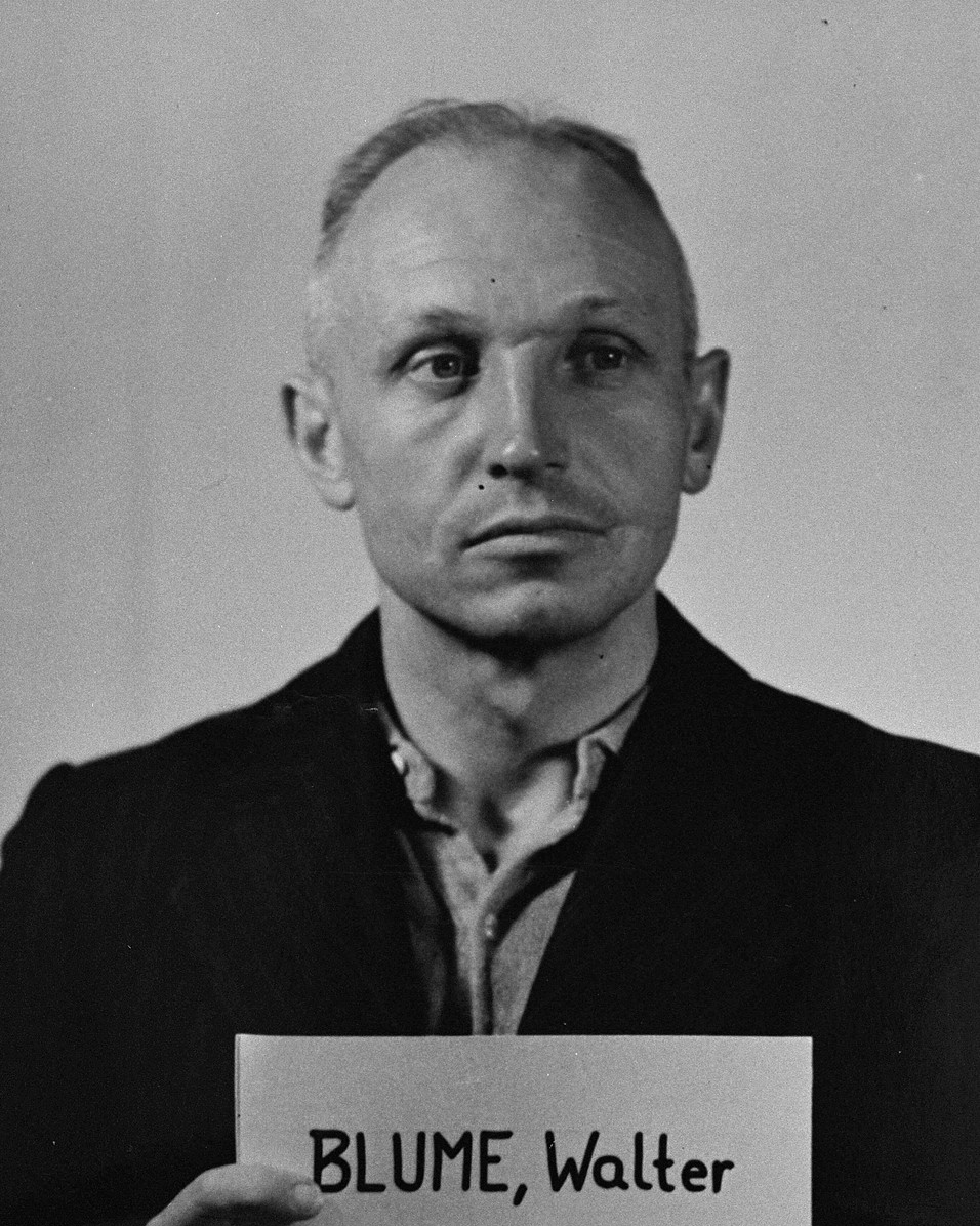 Walter Blume (1906-1974), German SS-Officer of the Einsatzgruppen killing squads. This photograph of Blume was taken by US Army photographers on behalf of the Office of Chief of Counsel for War Crimes (OCCWC) during Nuremberg Trial IX (Einsatzgruppen Trial / Einsatzgruppen-Prozess).